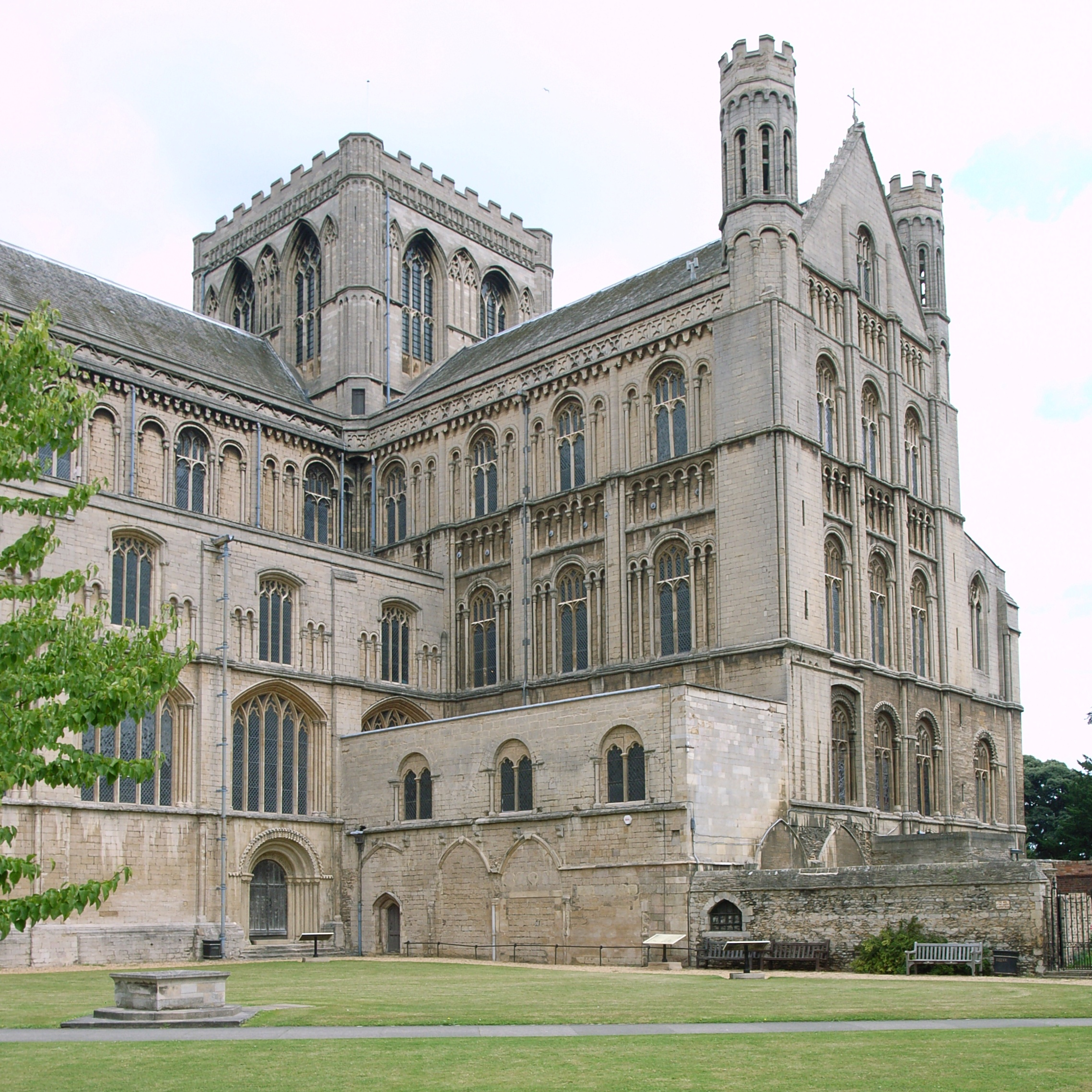 Peterborough Cathedral - view of crossing tower, nave and south transept from the south west